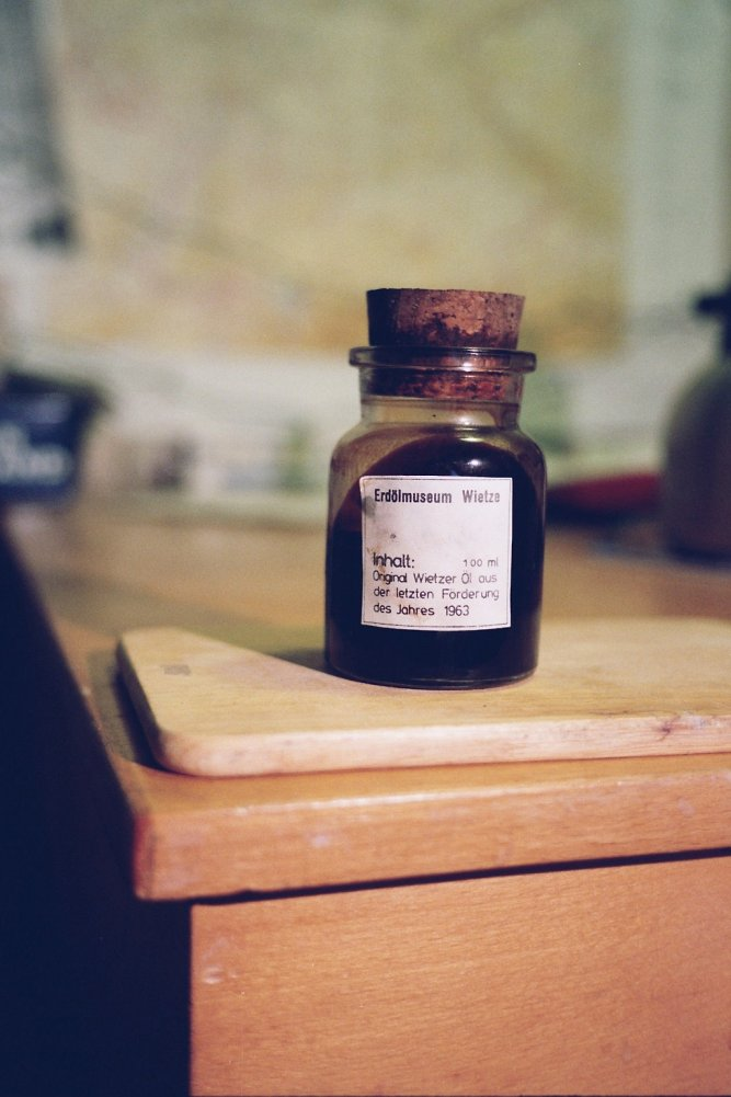 Specimen of 100 ml crude oil. Wietze, Lower Saxony, Germany, 1963